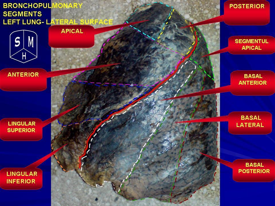 Human left lung